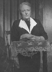 Pepita Melía- actriz